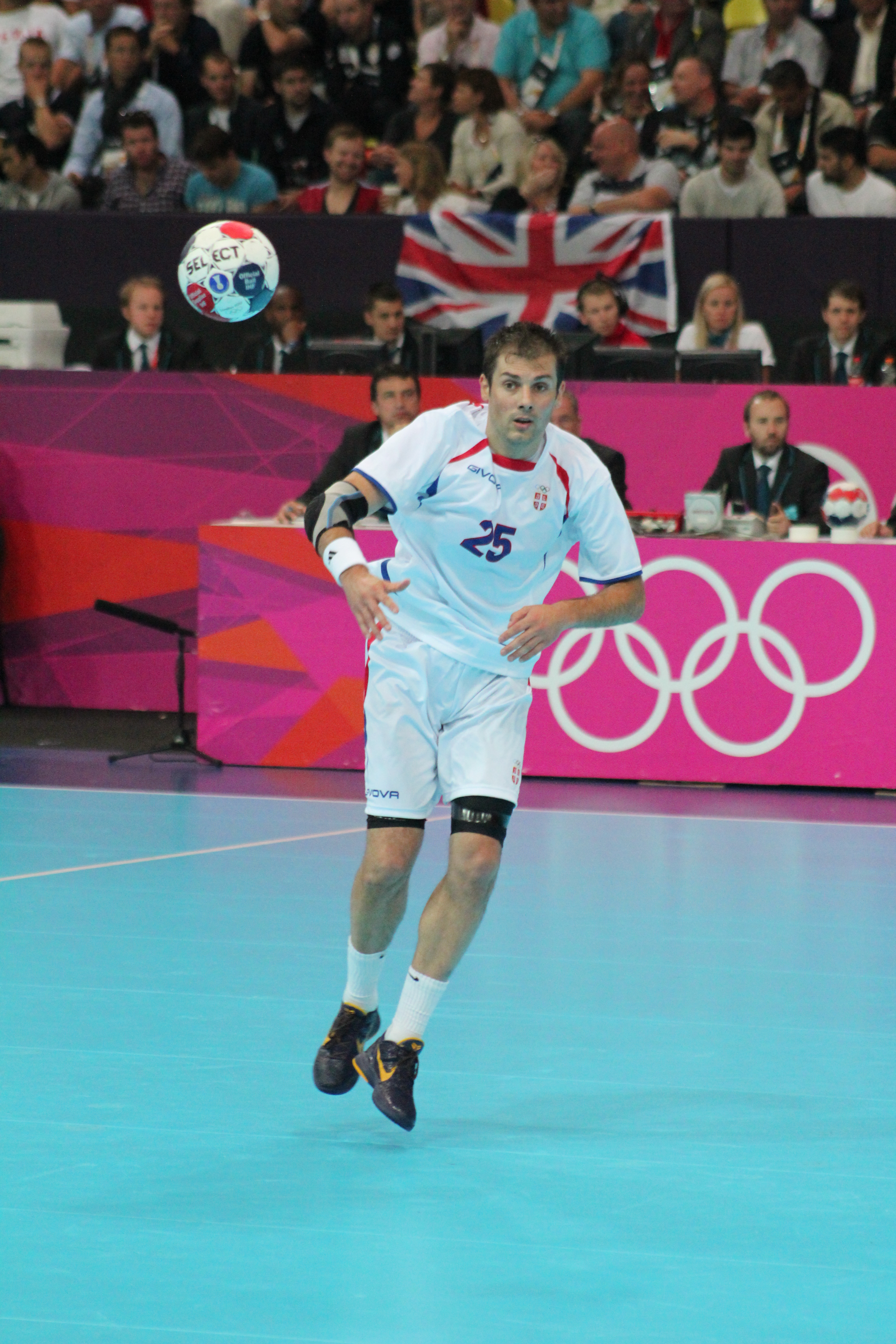 Dalibor Čutura - 2012 Summer Olympics.